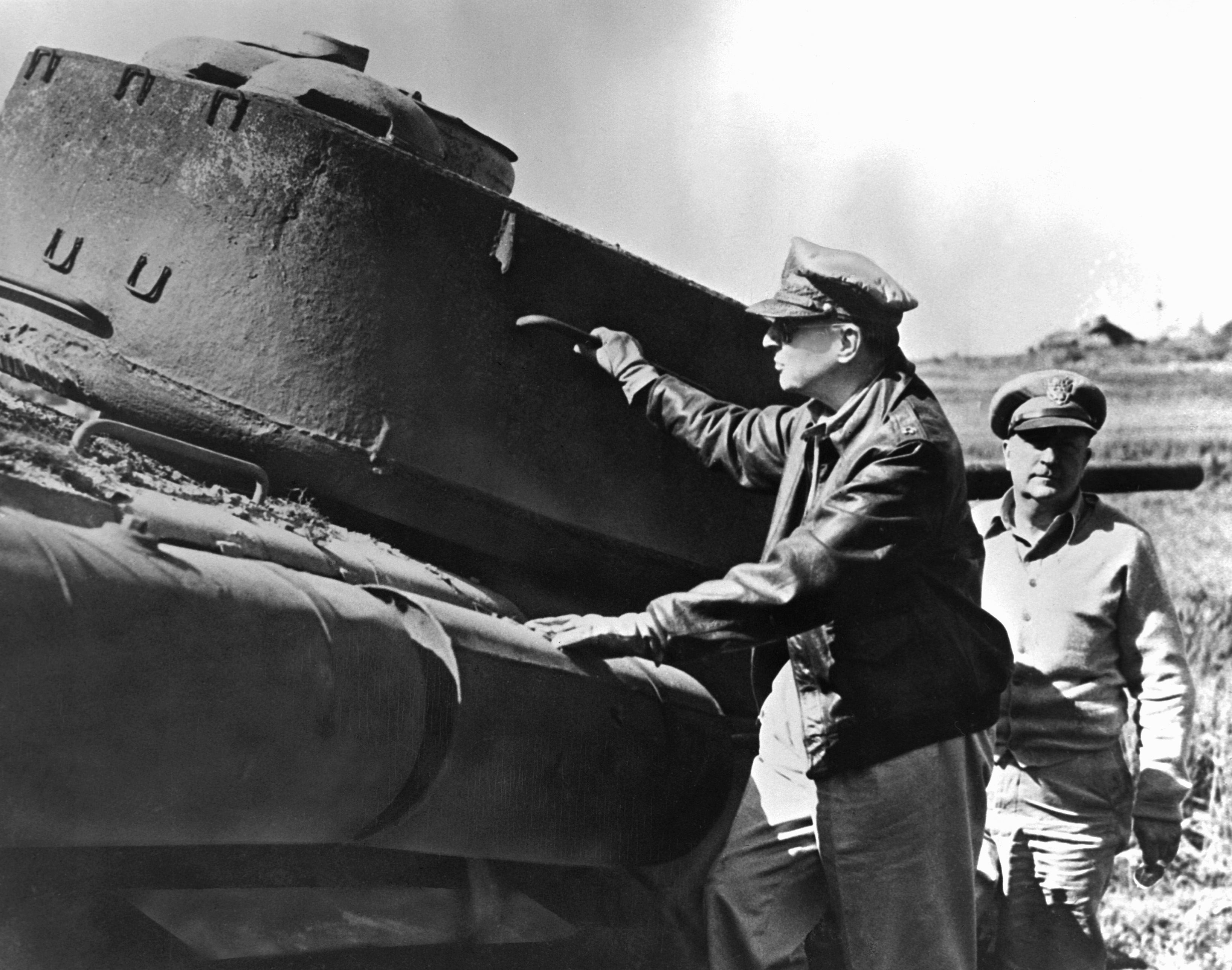 General of the Army Douglas MacArthur, Commanding General for the unified U.N. forces Aiding the Republic of Korea to repel the North Korean Communists, and a staff officer (right) inspecting a Communist tank, destroyed during the recent U.N. landings at Inchon. AIR AND SPACE MUSEUM #: 50-11886-306-PS